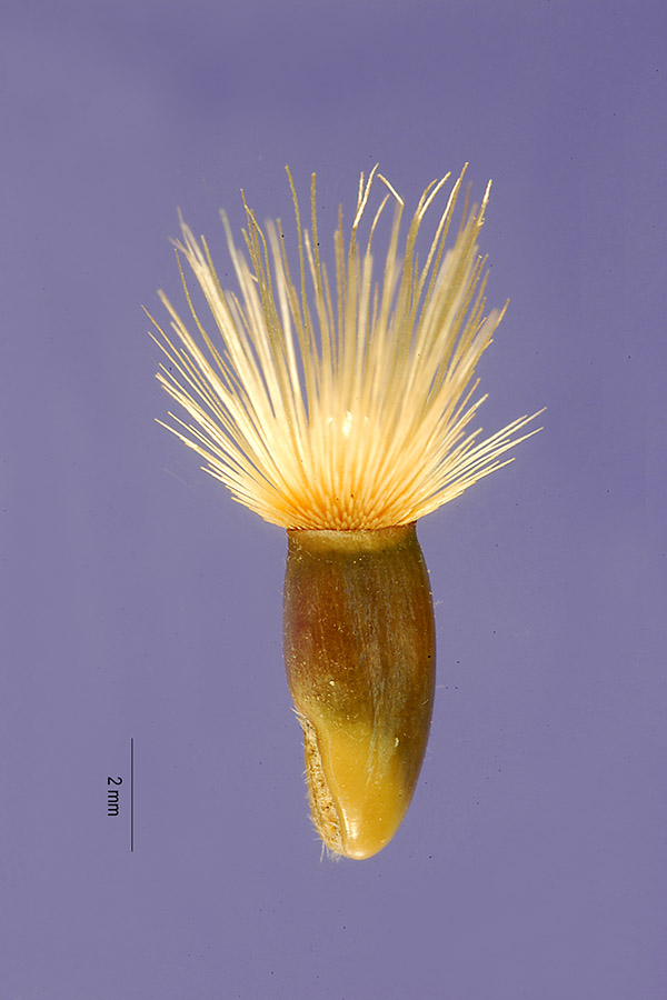 Cipsela of Centaurea depressa